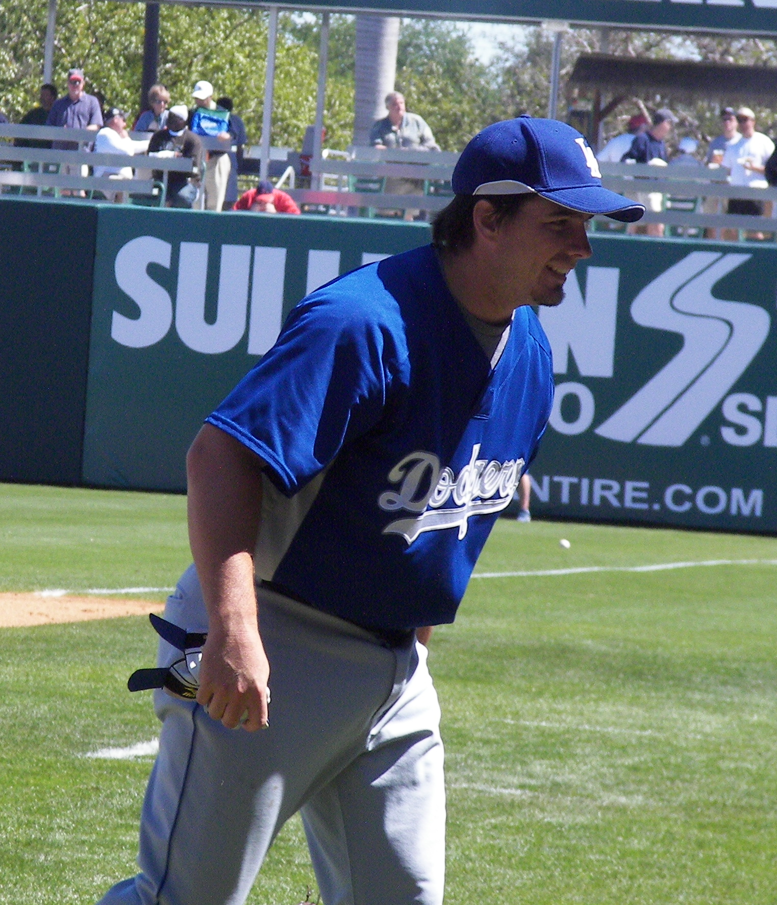 Los Angeles Dodgers minor leaguer Andy LaRoche before a Dodgers/Boston Red Sox spring training game at City of Palms Park in Fort Myers, Florida.